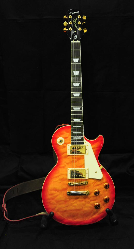 Epiphone Les Paul Ultra II from Flickr album "200907 My Guitars" by John Clift "My current collection of guitars - five of them are self-built"